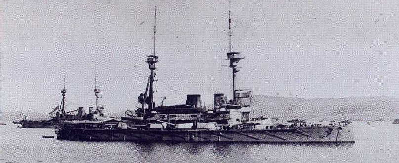 HMS Lord Nelson and HMS Agamemnon anchored in the Dardanelles in 1915